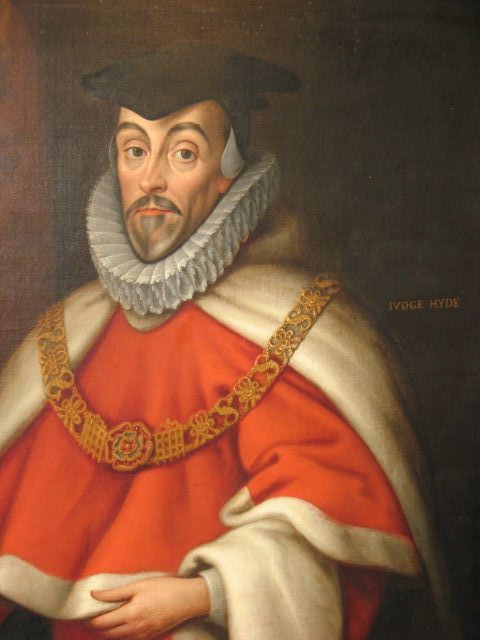 Portrait of Sir Nicholas Hyde (c.1572-1631), Lord Chief Justice